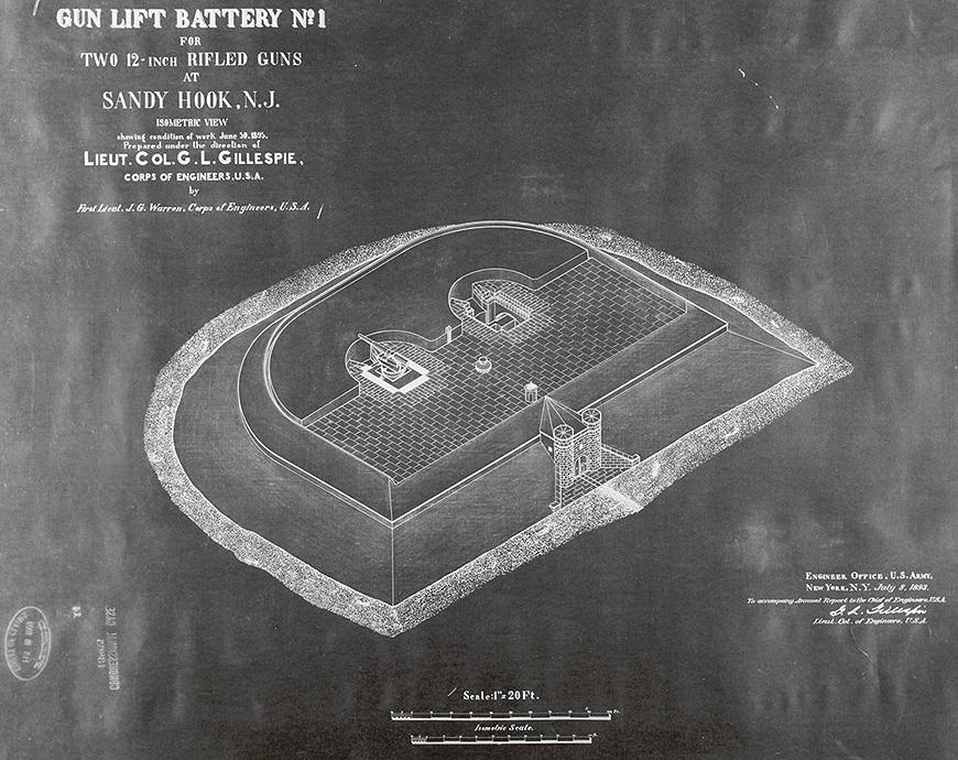 Battery Potter, Sandy Hook Proving Ground, Fort Hancock, New Jersey.